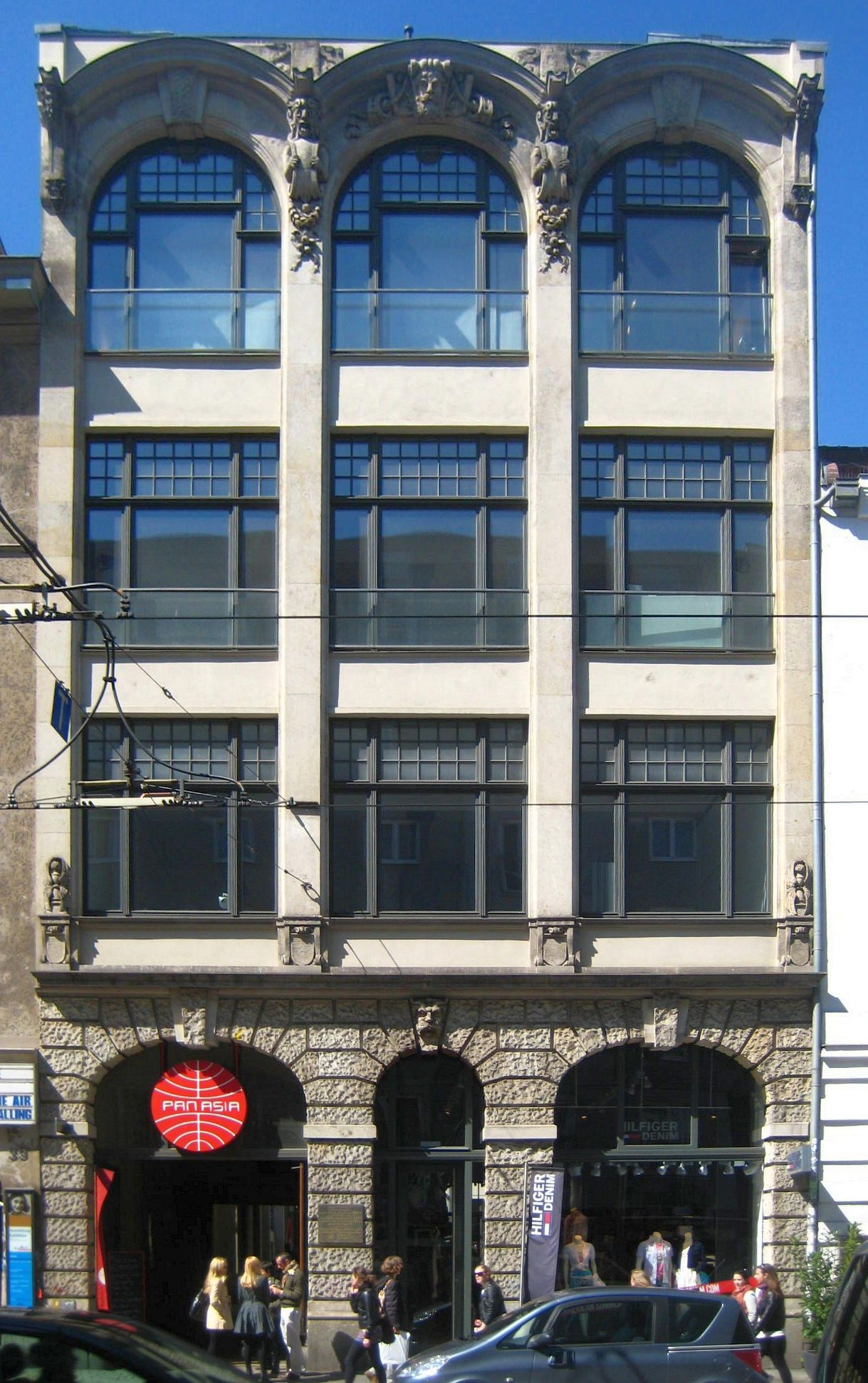 Commercial building at Rosenthaler Straße No. 38 in Berlin-Mitte. The front building was constructed around 1905 with a restaurant hall building and another building, both in the court. They are annexed to the older Club of Young Merchants building, another rear building (to a design by Carl Schwatlo, 1867). The whole complex has been designated as a historic landmark.